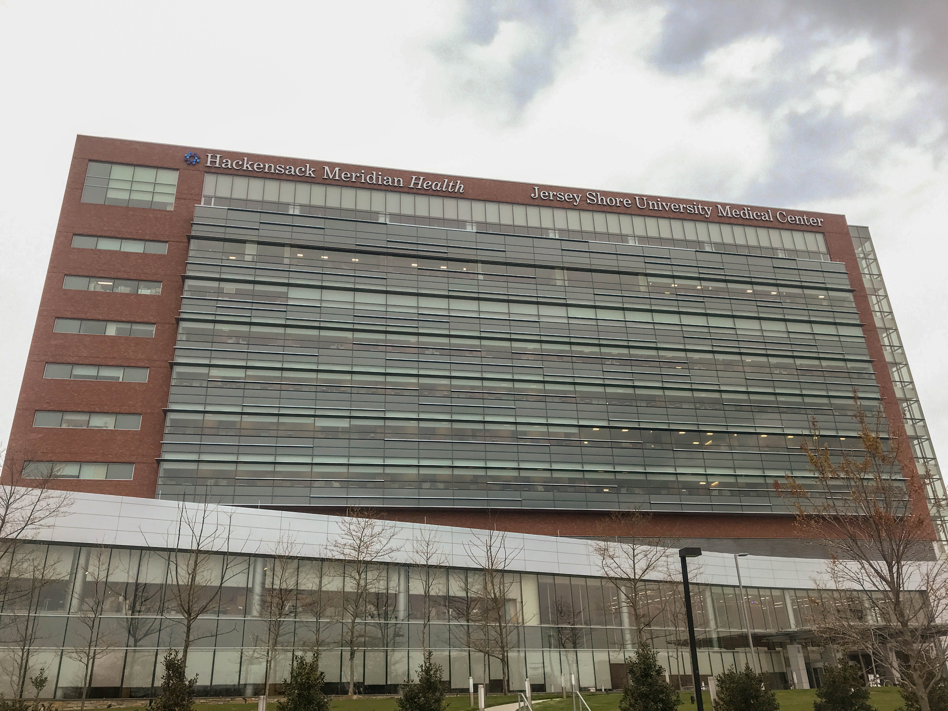 In 2019 the hospital once again expanded by building 300,000 square feet $265 million 10 story tower named the HOPE Tower (Healing Outpatient Experience). The HOPE Tower includes floors dedicated to cancer care, maternity, pediatrics, and doctors offices and high-tech academic and research space.[11][12]